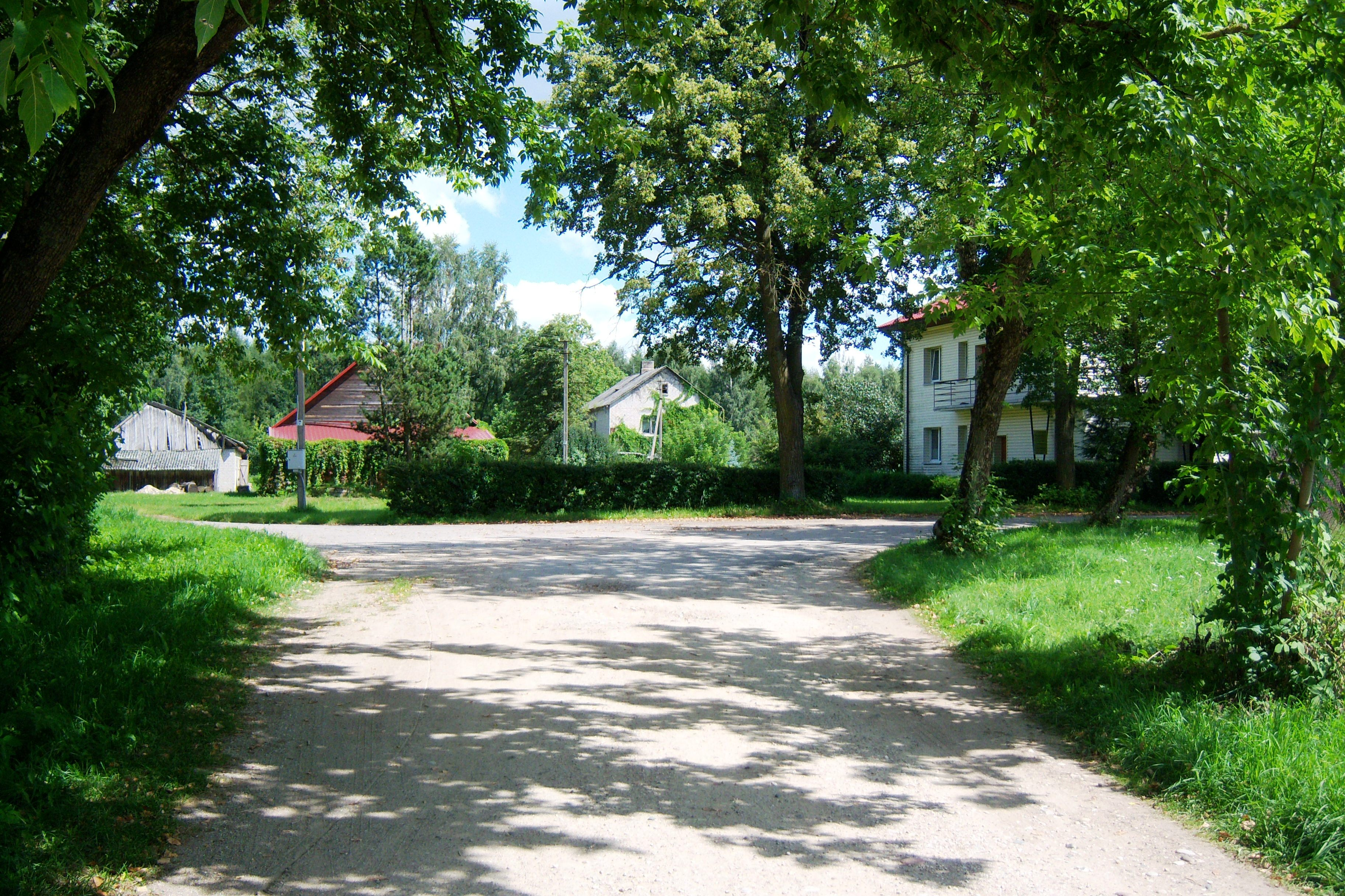 Jadvygava, Jonava District, Lithuania